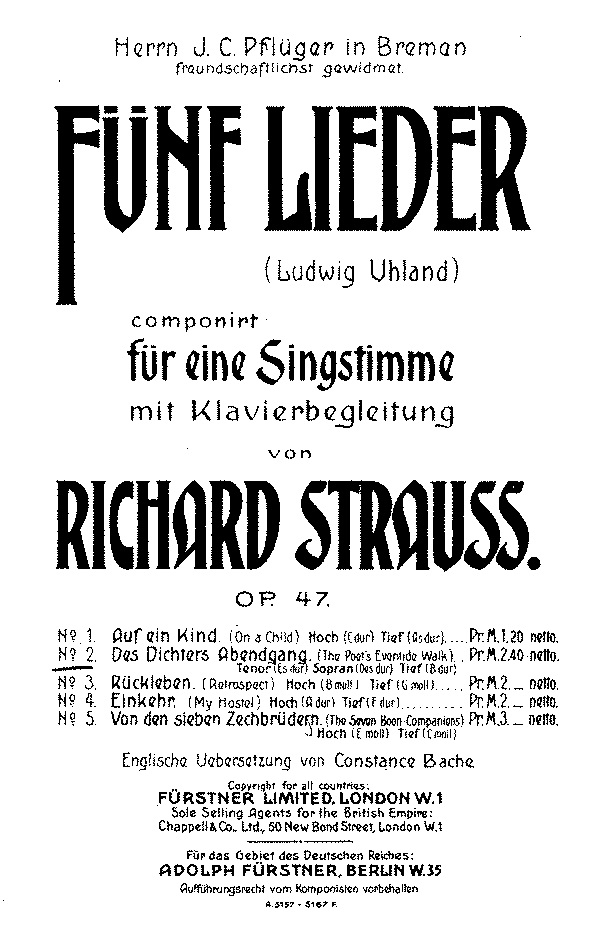 Scan of original song score (published 1900).